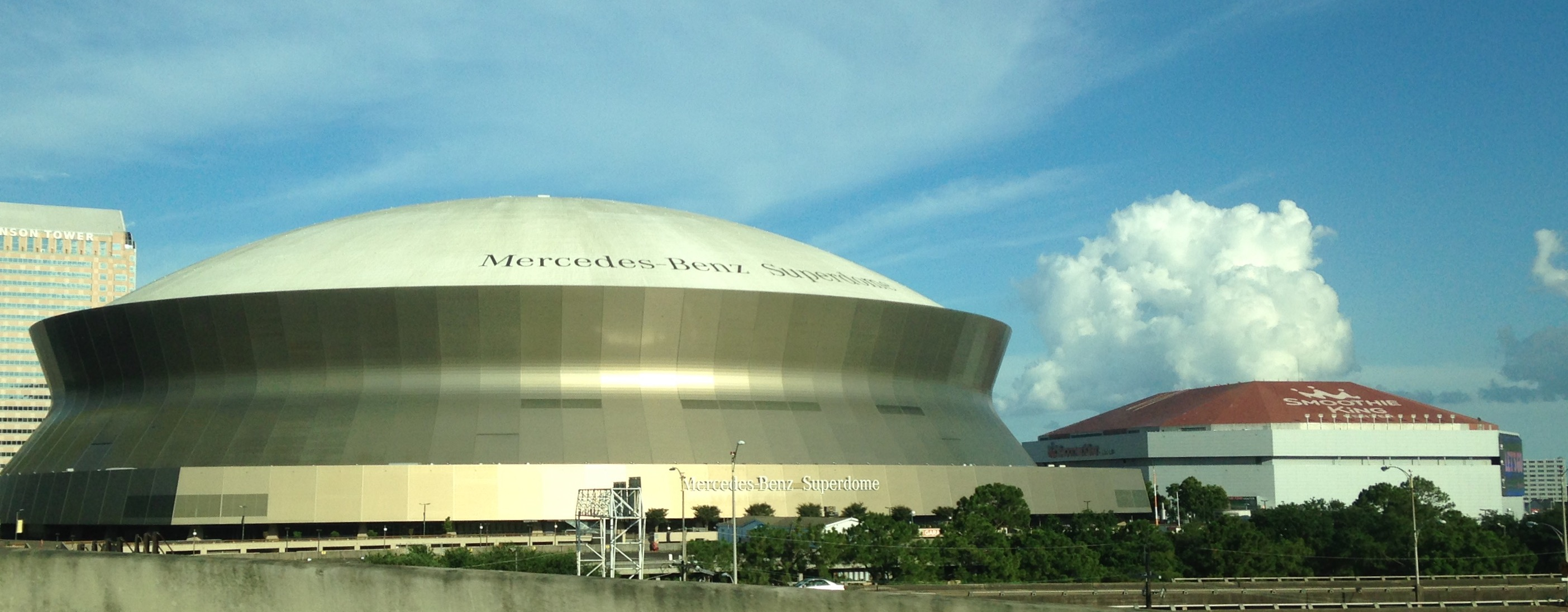 Mercedes Benz SuperDome and Smoothie King Arena, New Orleans LA